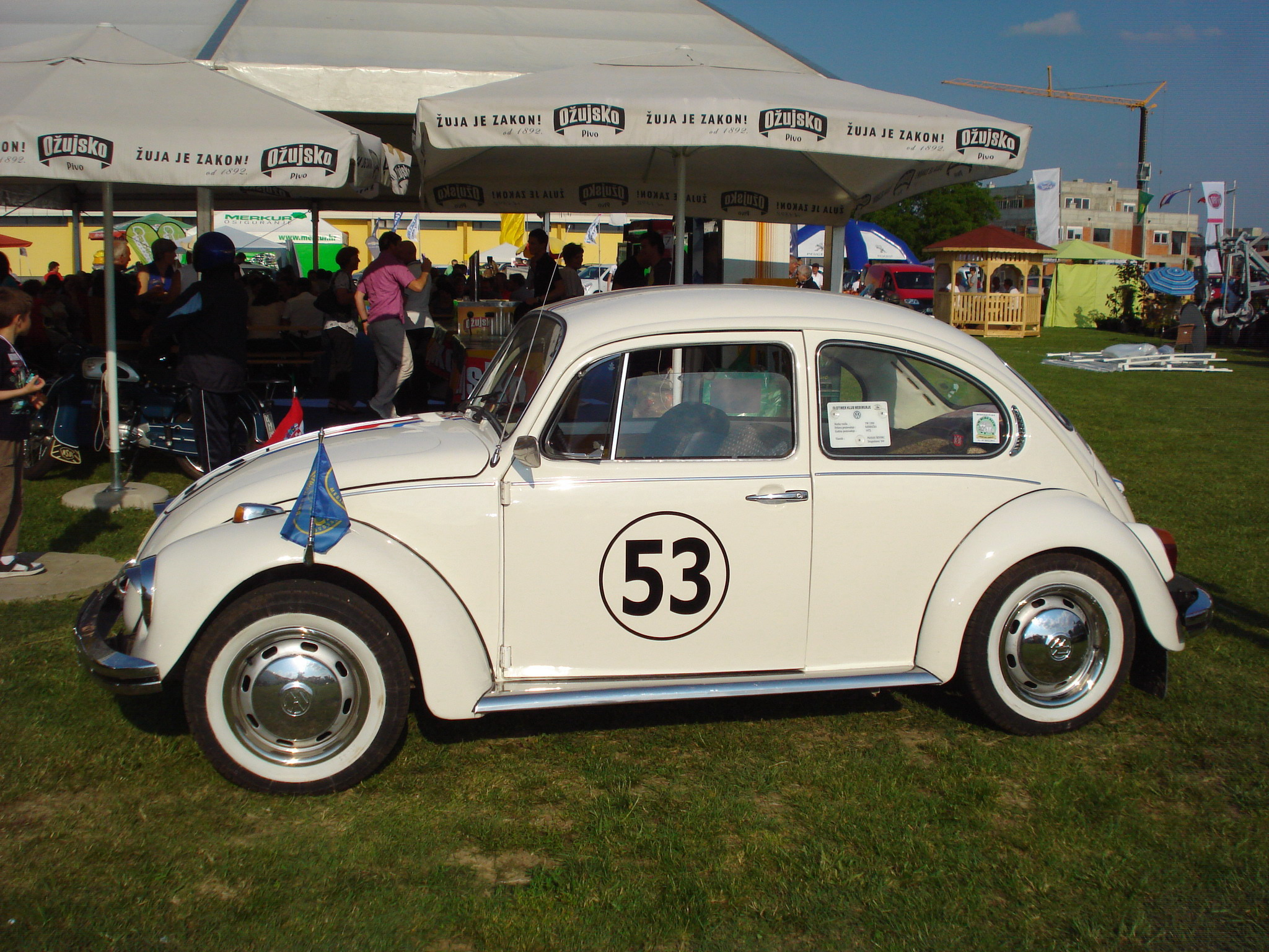 A VW-beetle "Herbie"-replica oldtimer at MESAP Fair 2013. in Nedelišće, Croatia (left side)